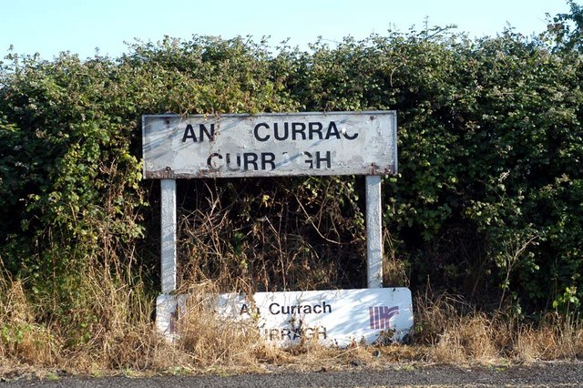 Curragh Station Bi-lingual station name